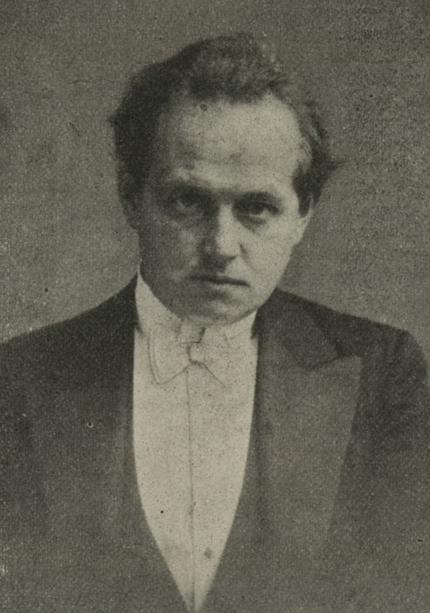 Oswald Kabasta (1896–1946), Austrian conductor.